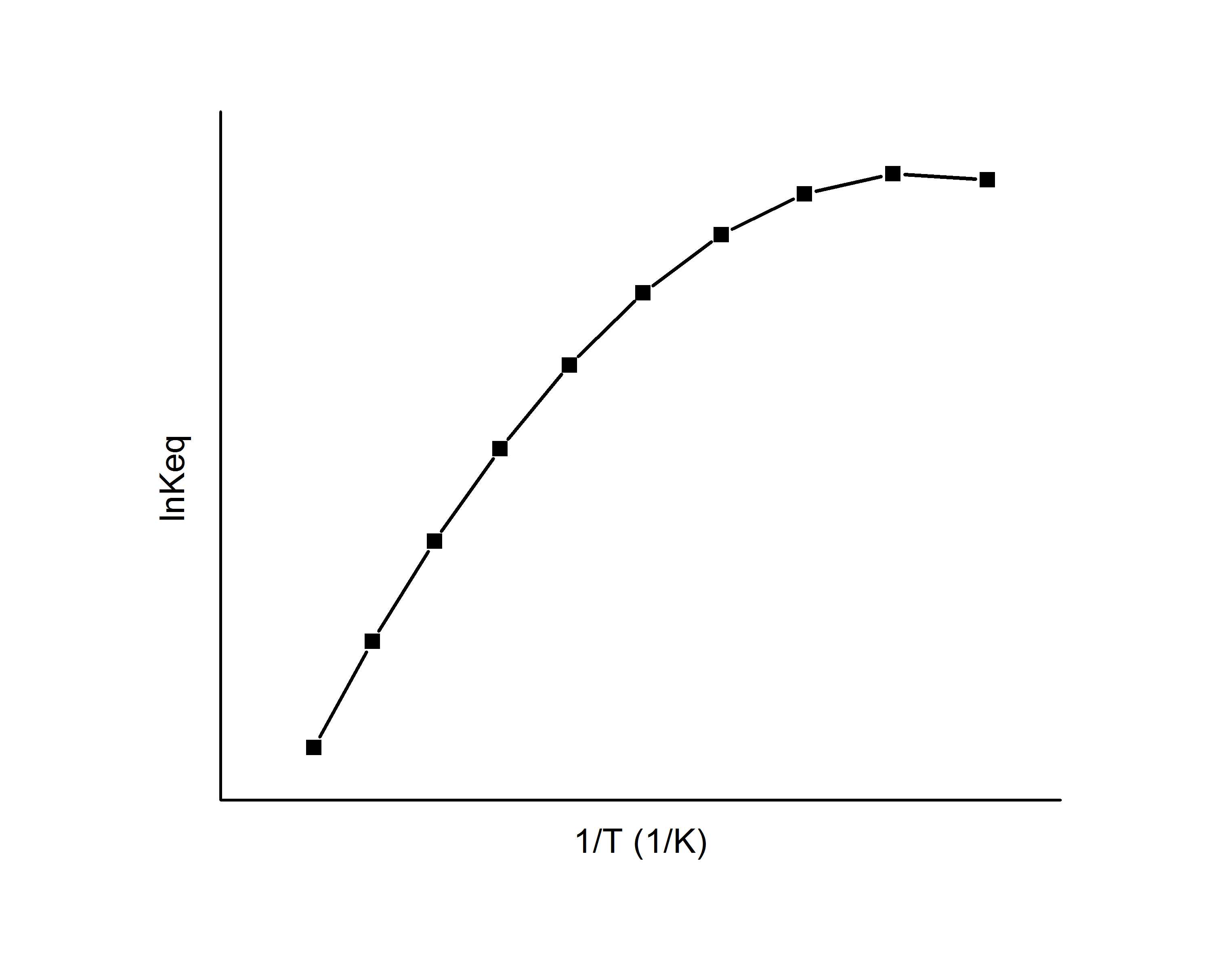 Temperature dependant van't Hoff plot